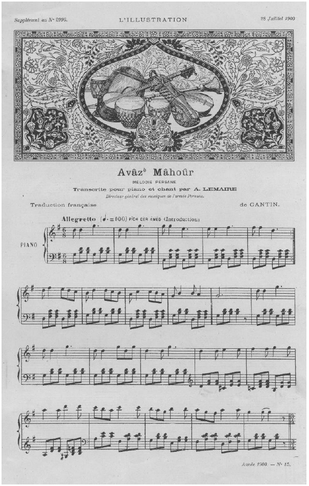 Sheet music of "Avaz Mahour" by A. Lemaire